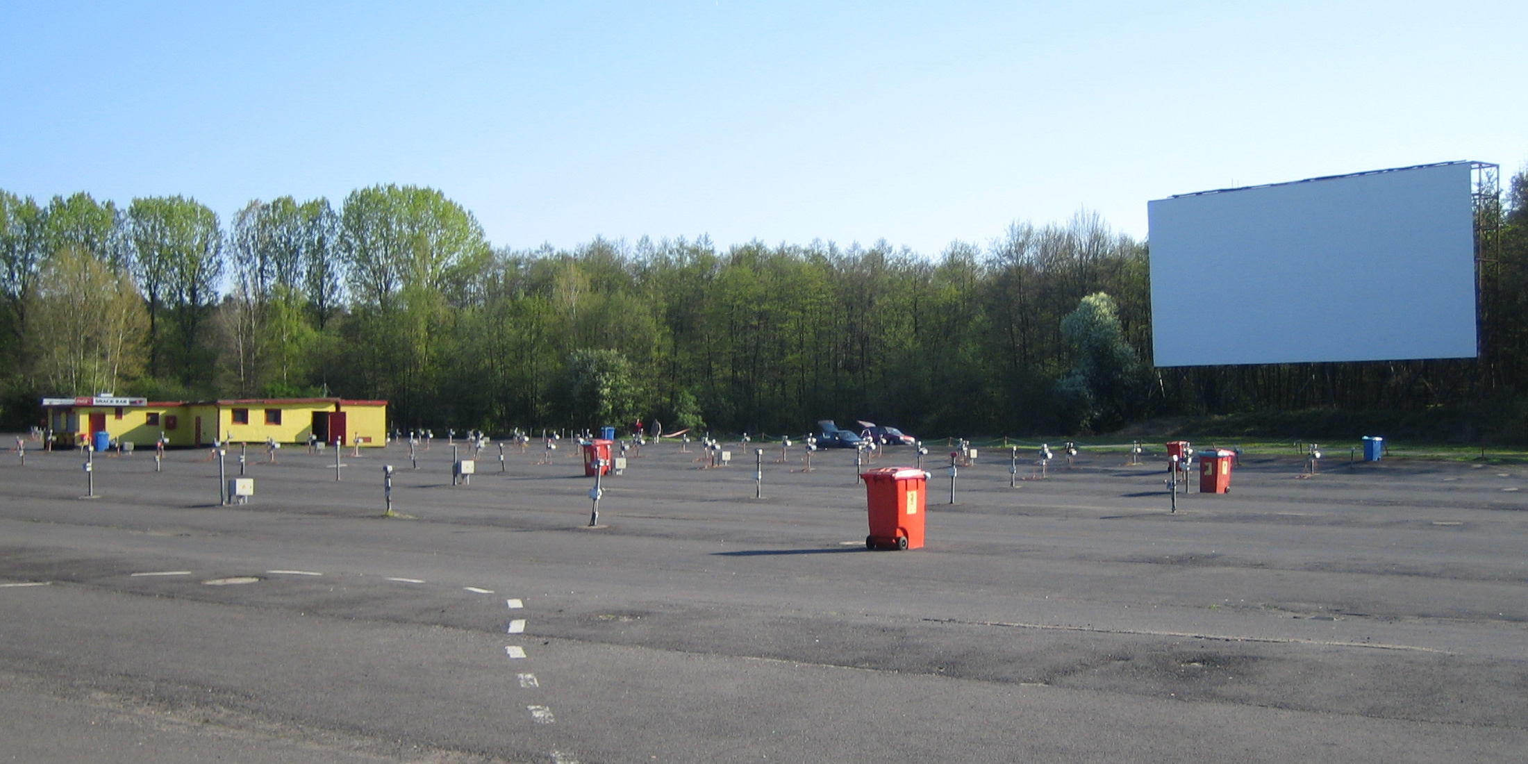 Drive-in theater in Neu-Isenburg, Germany. Opened in 1960, it was the first drive-in theater in Central Europe.